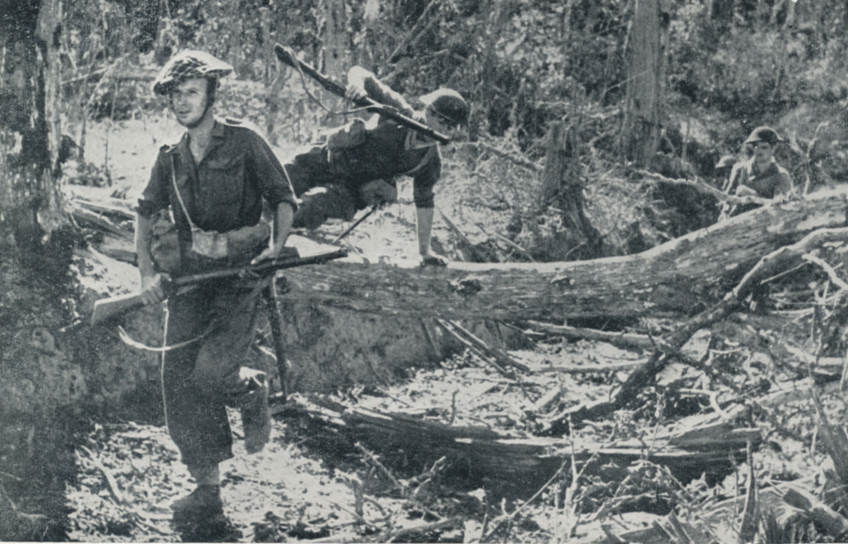 Men of the Royal Scots Fusiliers, 36th Infantry Division, advancing near Pinwe, December 1944. [IWM gives as Royal Scots, not RSF, but apparently in error]. Fusilier James Welsh Cooper in front.